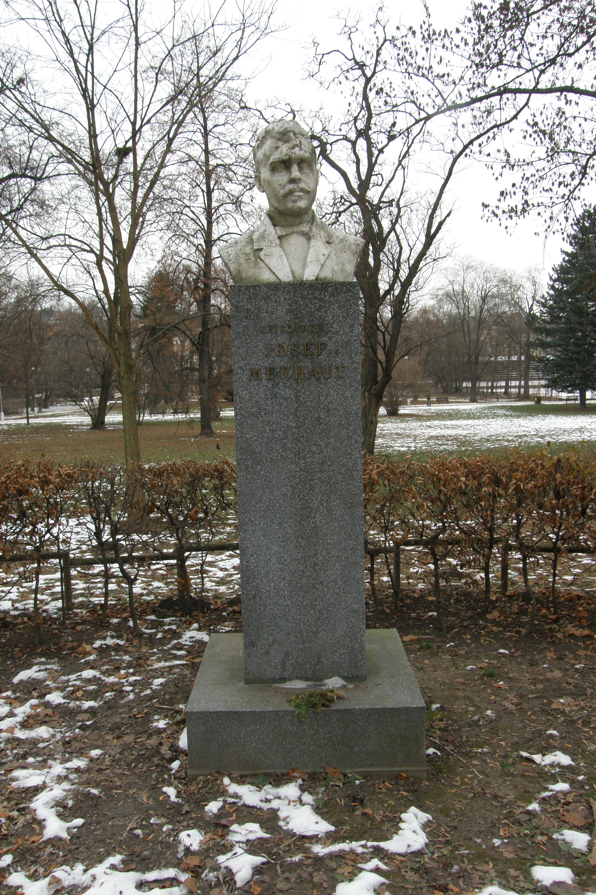 Bust of Czech writer Josef Merhaut (1863–1907) from 1929 by Emil Hlavica (1887–1952) and Jan Mráček (1874–1961) in Lužánky Park